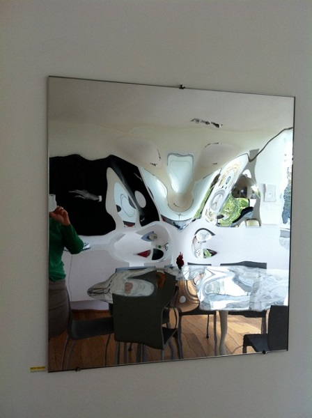 exposition. Yena